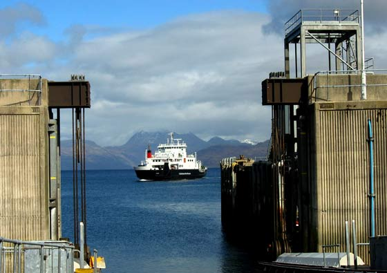 The Caledonian MacBrayne Mallaig-Armadale ferry takes aim for Armadale pier